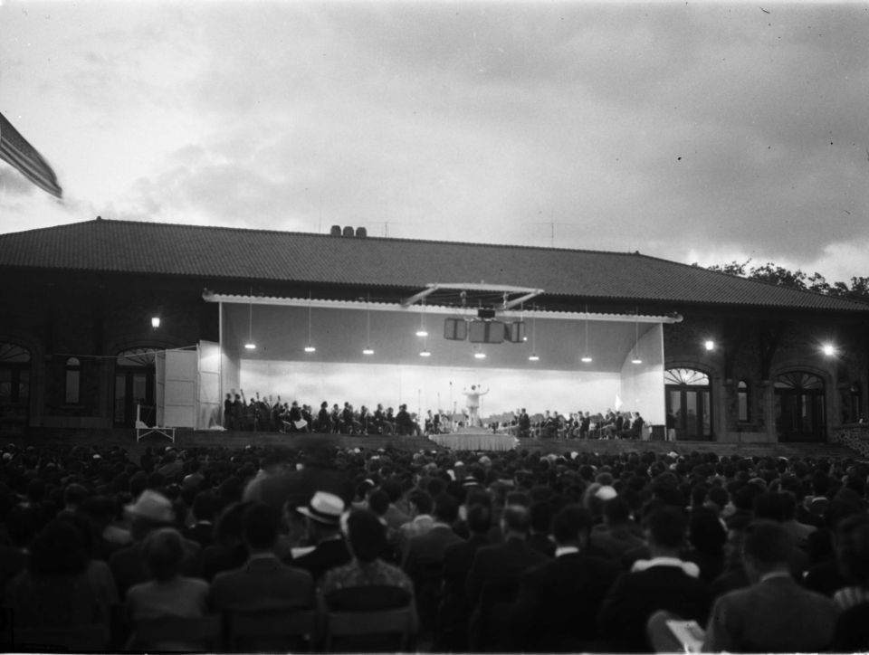 A symphony orchestra gave a concert in front of the chalet on Mount Royal.